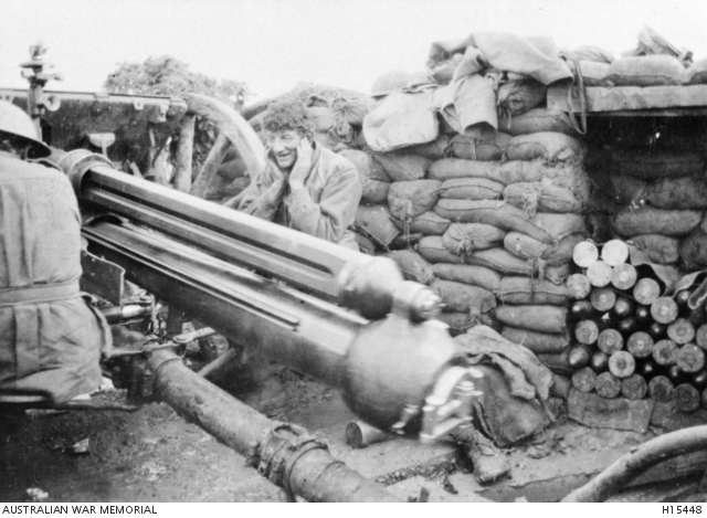 An AIF Artillery Unit's 18 pounder gun in action on Anzac Ridge during battles in the Passchendaele area. The gun has just fired and is still almost at full recoil. Location : Western Front, Belgium. Donor Mrs L.J. McNicol